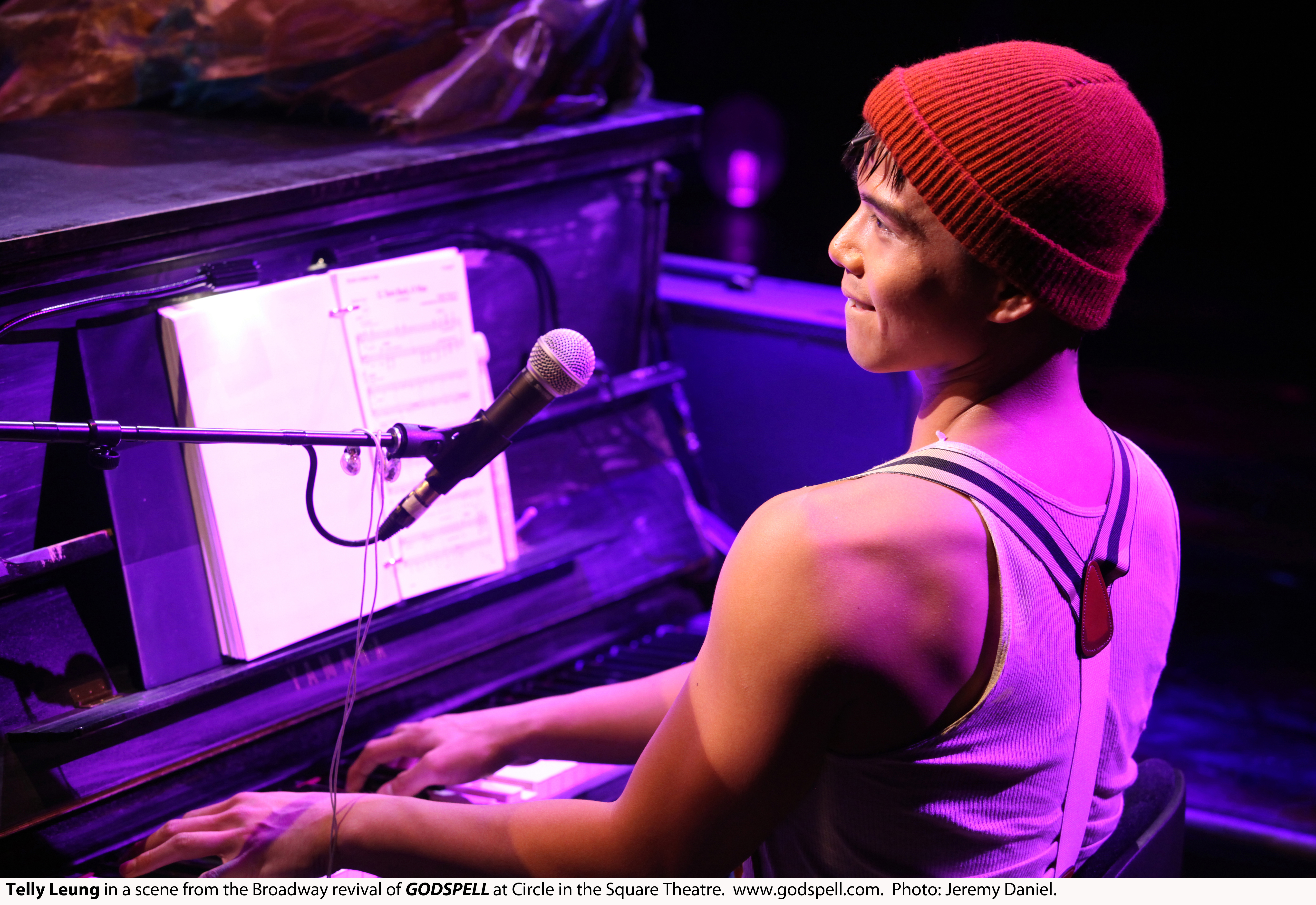 Actor Telly Leung playing the piano in the 2011 Broadway revival of Godspell.